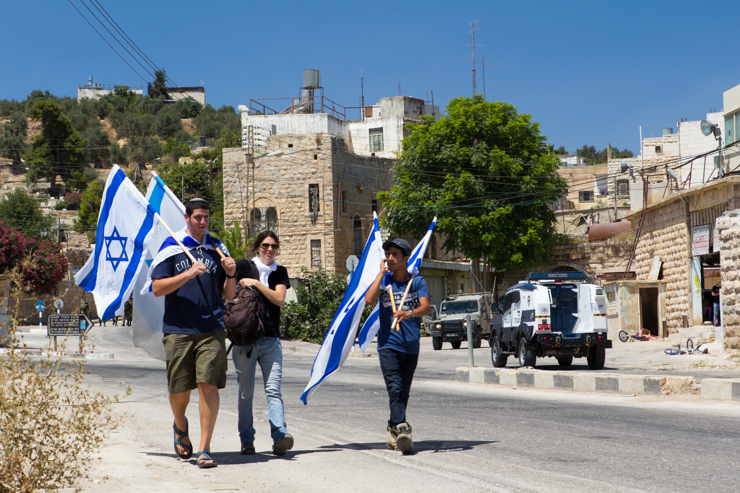 Breaking the Silence Hebron tour, August 28, 2015. Yuli Novak, chairwoman of Breaking The Silence, is accompanied by representatives of the settlers wherever she goes.